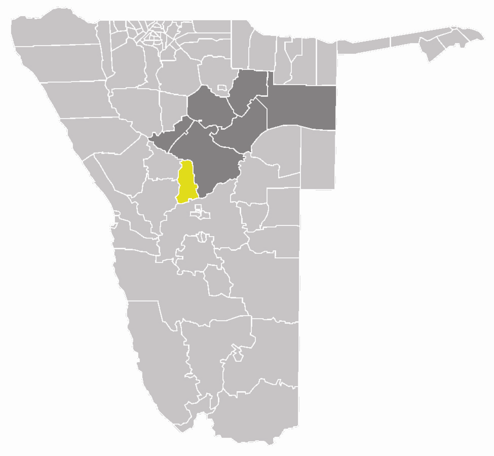 map of the Okahandja constituency within the Otjozondjupa region, Namibia